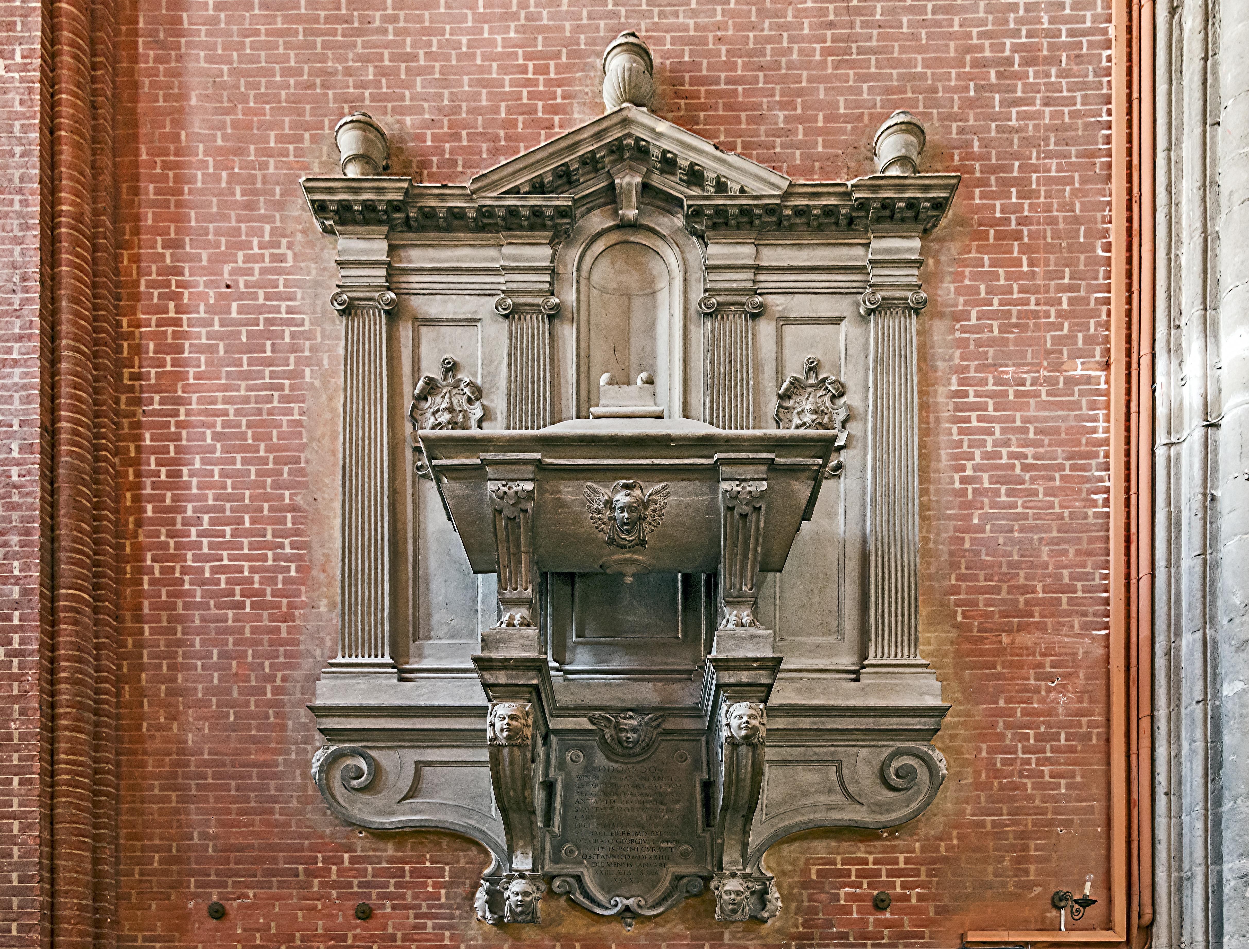 Santi Giovanni e Paolo in Venice. Chapel of the Crucifix - Tomb of Edward Windsor, 3rd Baron Windsor, death in Venice in 1574. Attributed to Alessandro Vittoria.